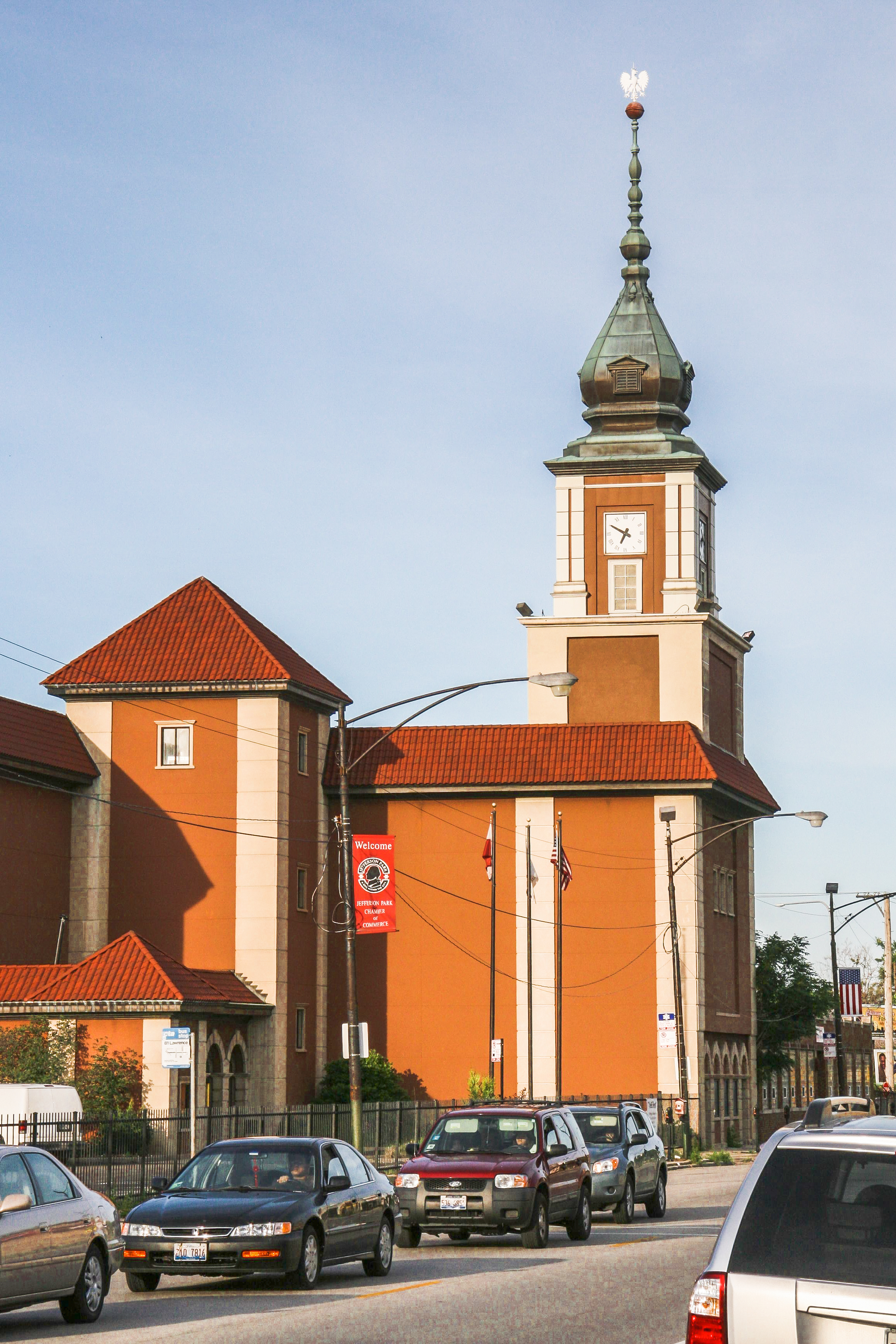 The Copernicus Center in Chicago's Jefferson Park neighborhood